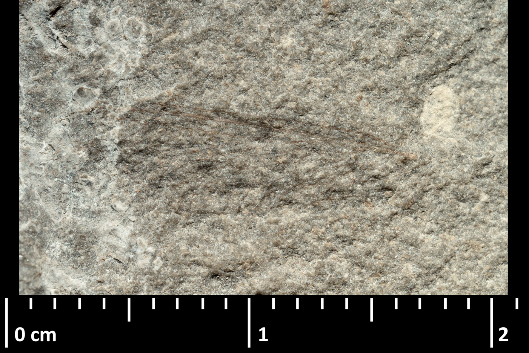 The Protoaristenymphes bascharagensis holotype, part side with direct lighting. Toarcian, Jurassic; Bascharage, Luxembourg Muséum national d'Histoire naturelle specimen MNHN.F.R10380